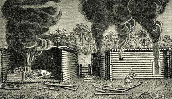 Rough translation: A smoky, chimneyless fireplace in a hut.